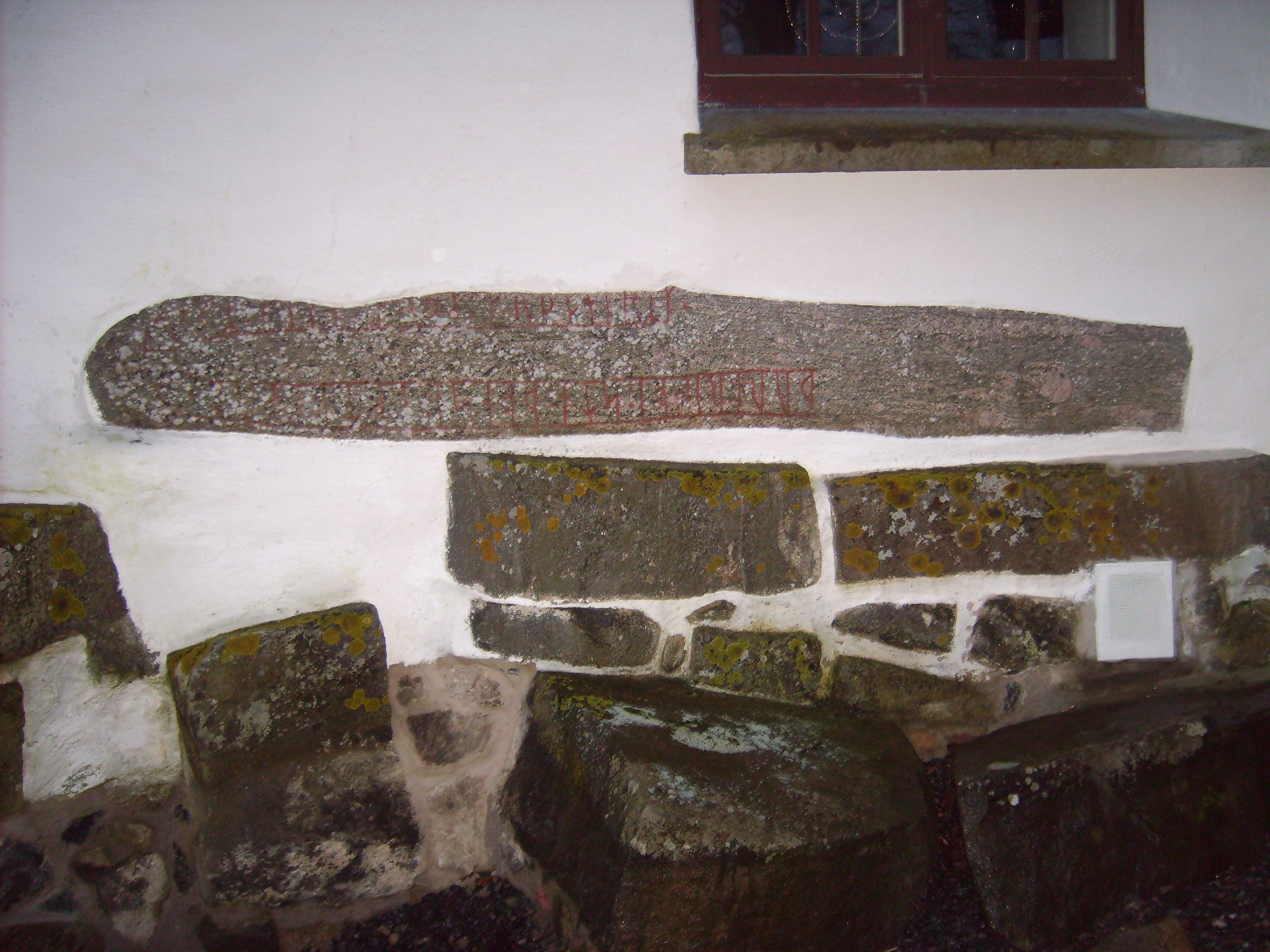 Runstone, from the 1200th century stone church "Ås kyrka" in Västergötland, Sweden. The text in swedish: "Tore reste denna sten efter Karl, sin bolagsman, en mycket god dreng".